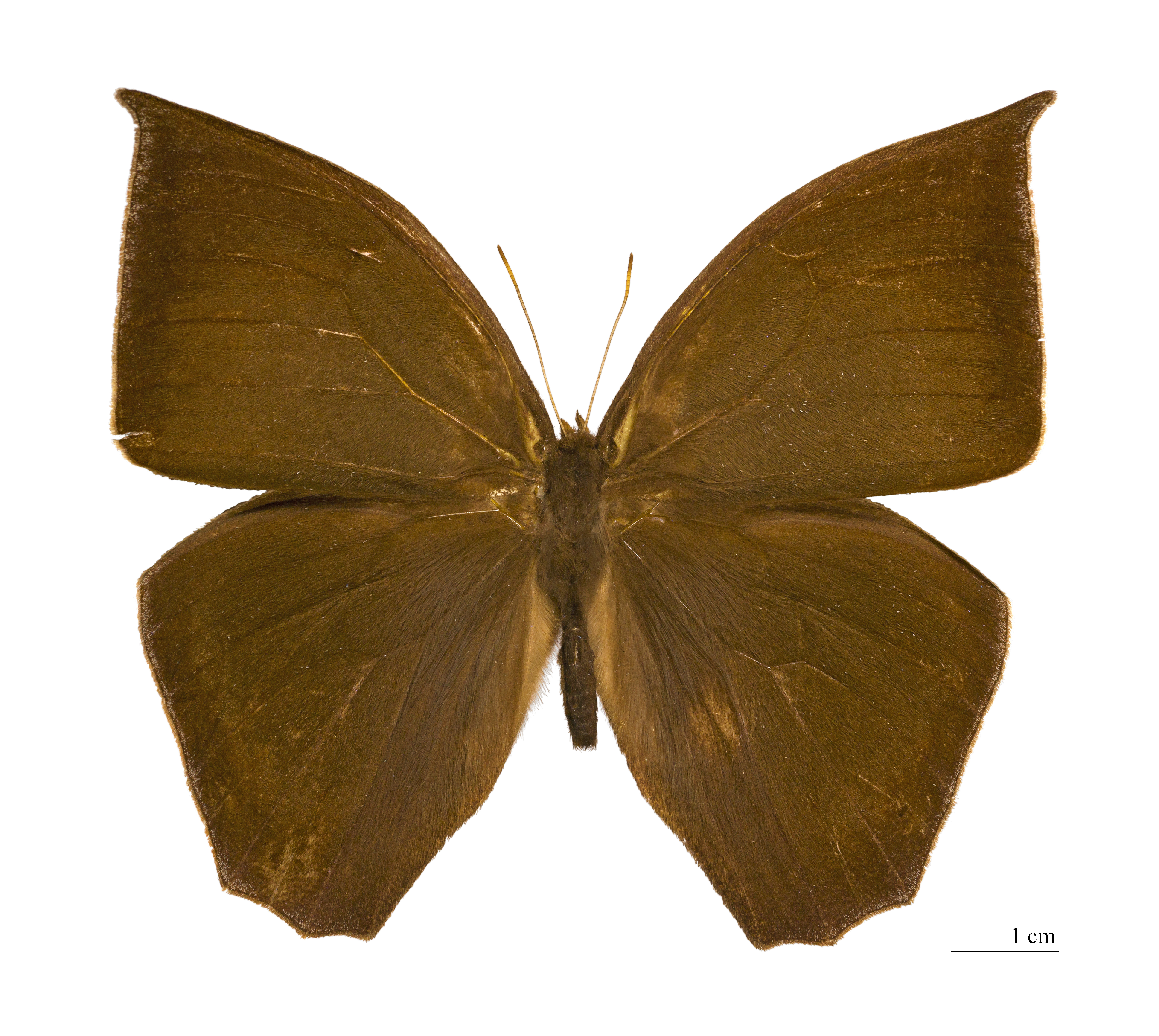 Male specimen - Dorsal side. Locality: Rio Natal, Santa Catarina, Brasil